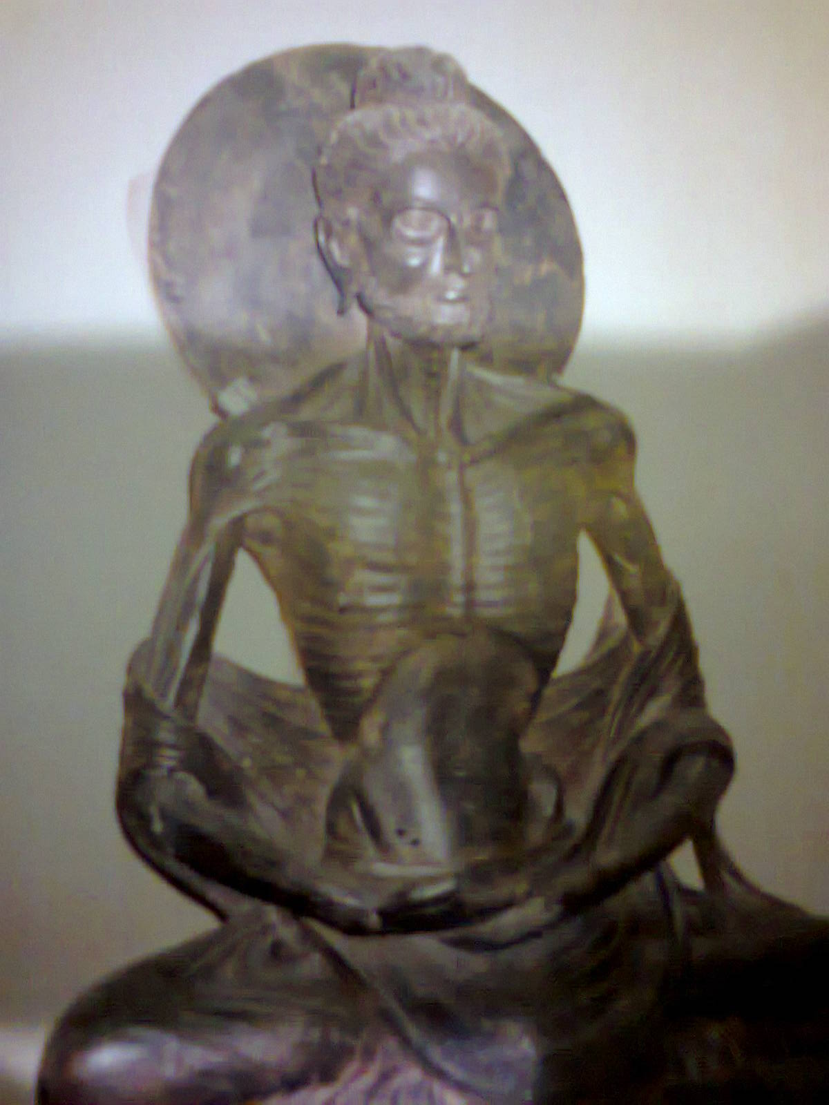 very famous 'Fasting Buddha' statue at Lahore Museum , from Greco-Gandhara civilization